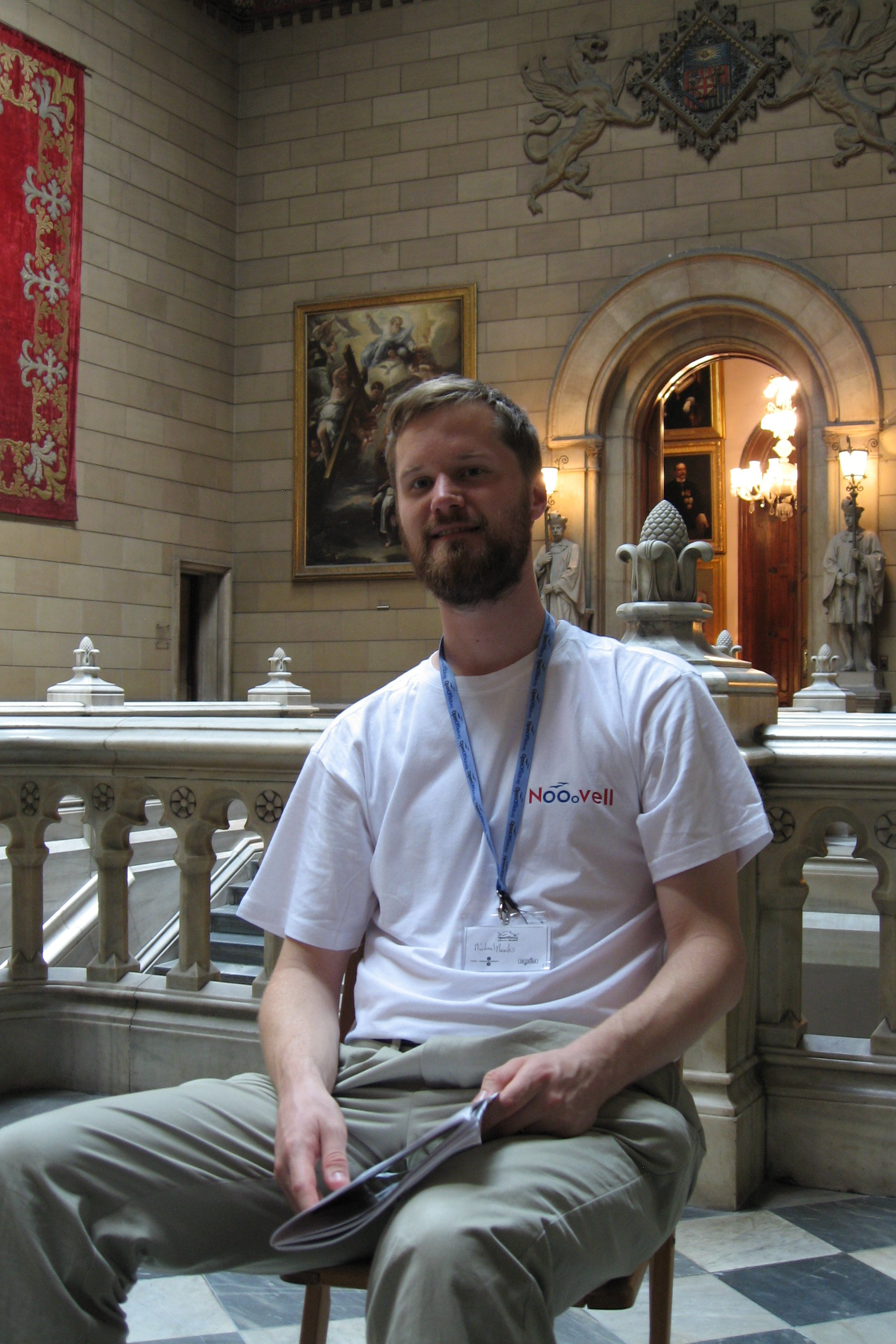 Photograph of Michael Meeks at the conference 2007 in Barcelona, Spain